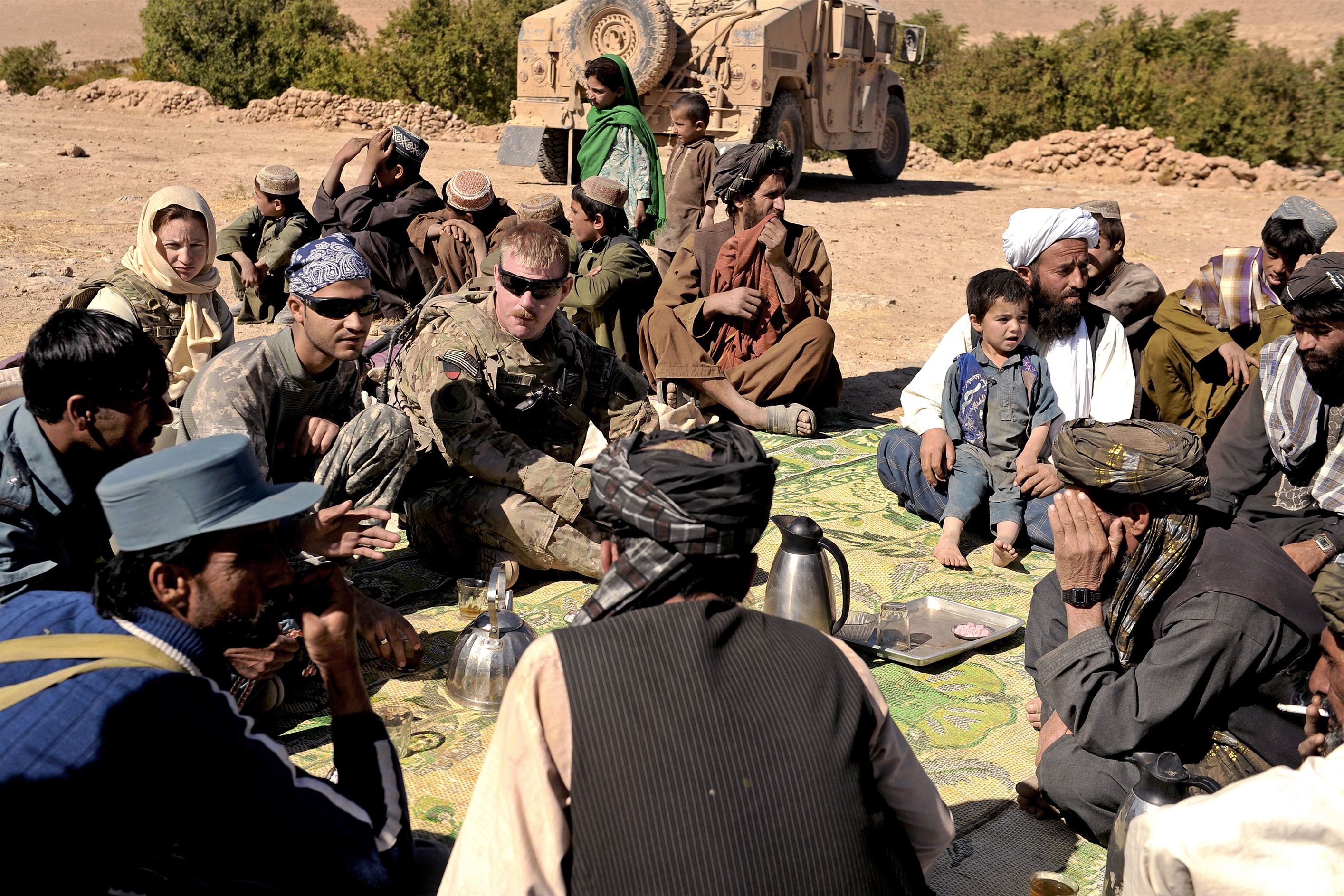 U.S. troops and Afghan police and soldiers conduct a shura with village elders in Mizan in Zabul province, Afghanistan, Oct. 25, 2011.